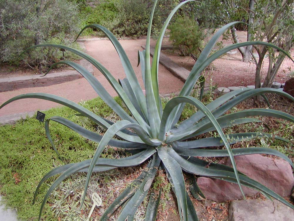 Photo of Agave vilmoriniana (octopus agave) at the Desert Demonstration Garden in Las Vegas